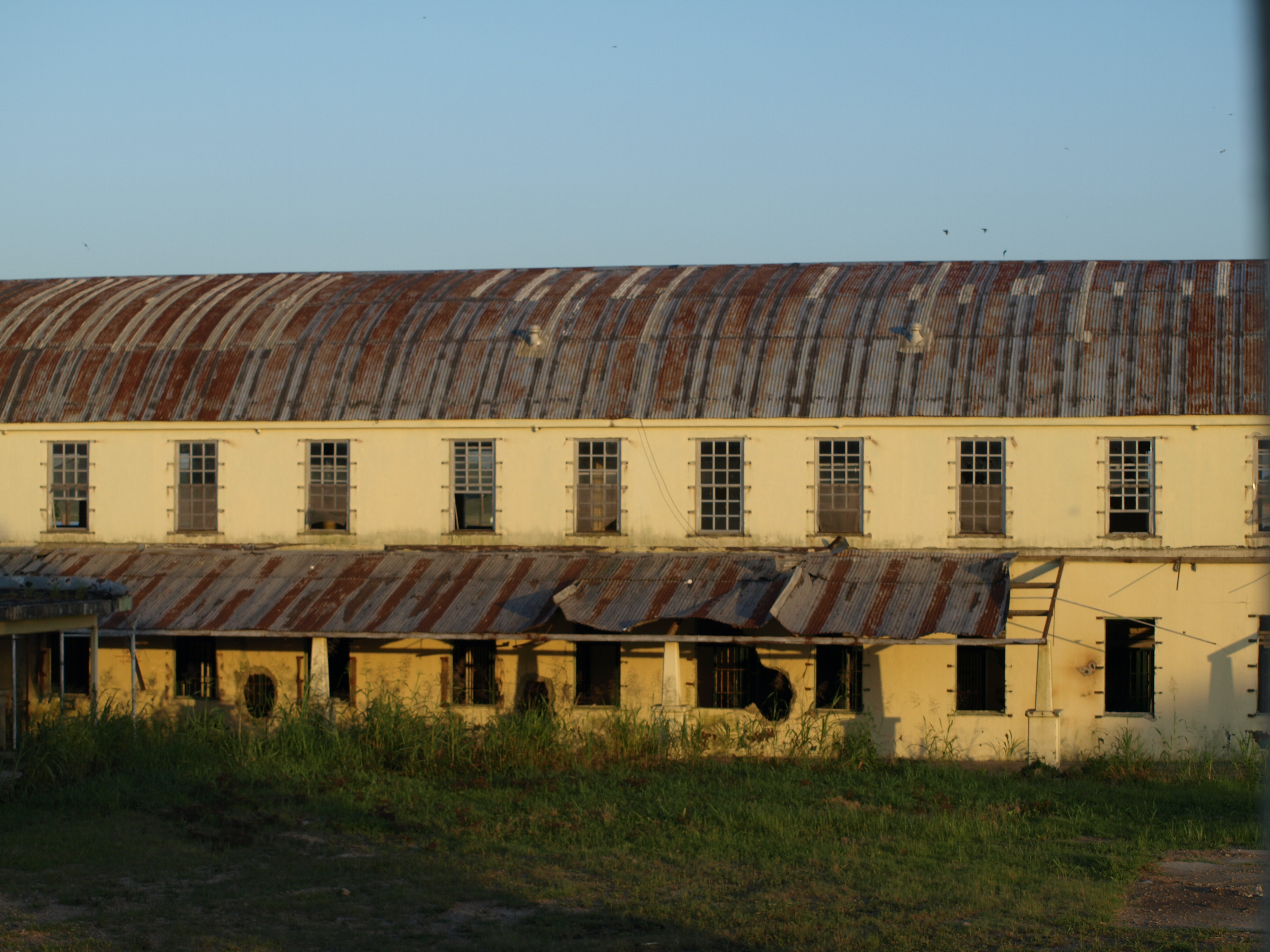 Camp H - Cellblock on bottom, dorm on top floor.